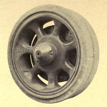 Cast steel wheel designed and patented by George Walther for the Dayton Steel Foundry in 1913